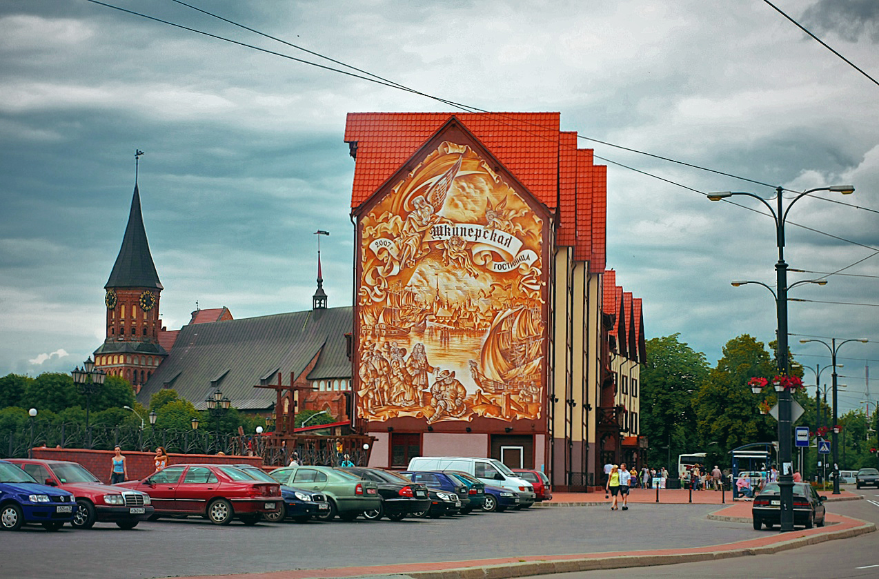 Kaliningrad: fishing village information center in the foreground; in the background on the left, the Cathedral